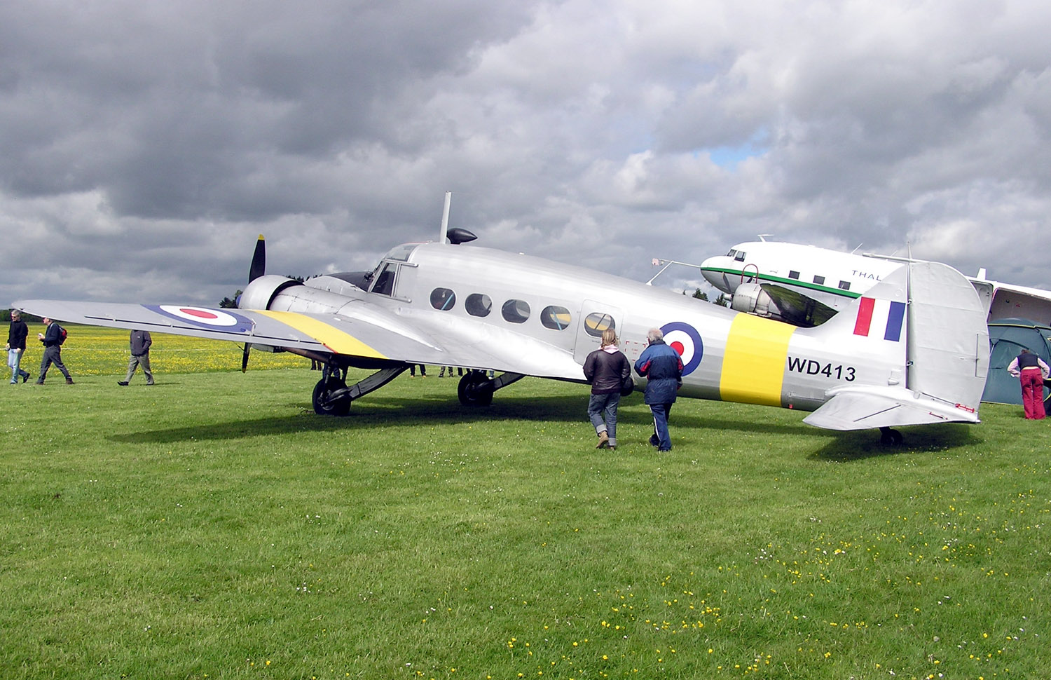 Avro 652a Anson T.21 (military designation WD413, private registration G-VROE) of the Air Atlantique Historic Flight at Hullavington Airfield, Wiltshire, England. Aircraft details: This aircraft was built at Yeadon, England, as a T.21 and served with No. 1 Basic Air Navigation School at Hamble until June 1953. She was then converted to a C.21 and used by Bomber Command, Fighter Command and Transport Command as a communications aircraft. Air Atlantique acquired her in 1998. Photographed by Adrian Pingstone in May 2005 and placed in the public domain.